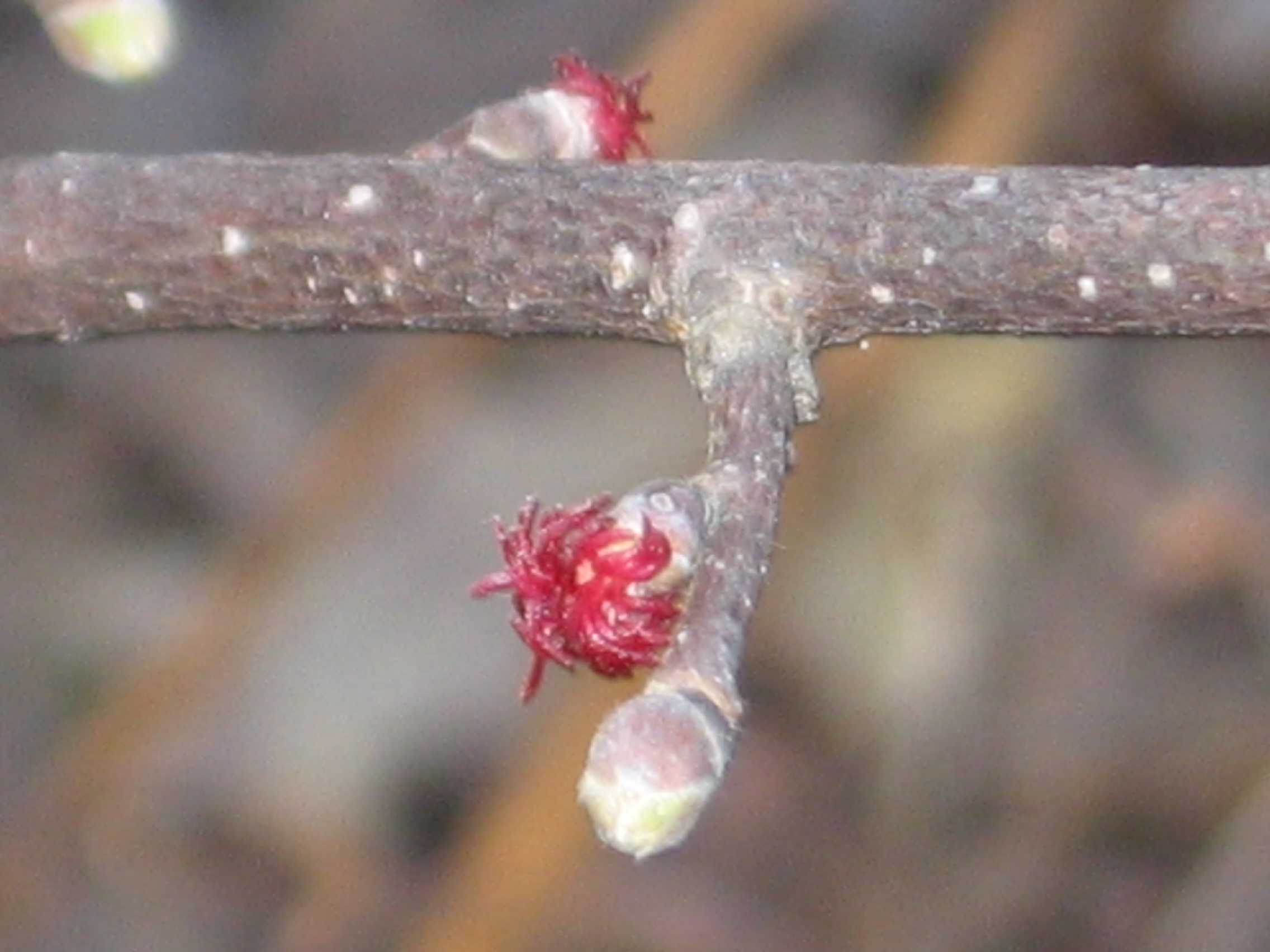 Close-up photo of Corylus cornuta's female flower.